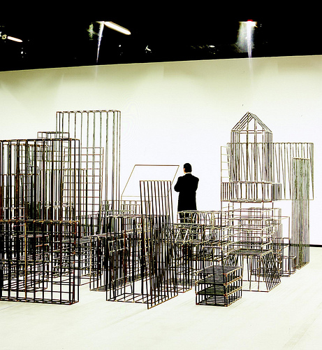 Raul Mourão's installation overview. Named "Entonces", it was built in Instituto Tomie Ohtake (São Paulo, Brazil. 2004), inside the exhibition "SP 450 Paris".